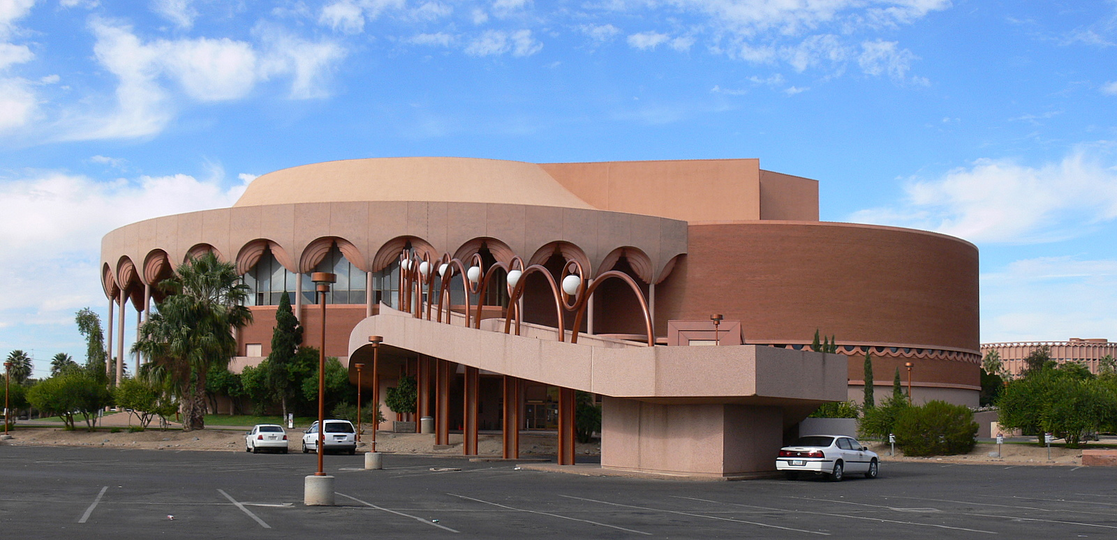 The image was personally taken by me in November 2006. Wars 07:45, 25 November 2006 (UTC)